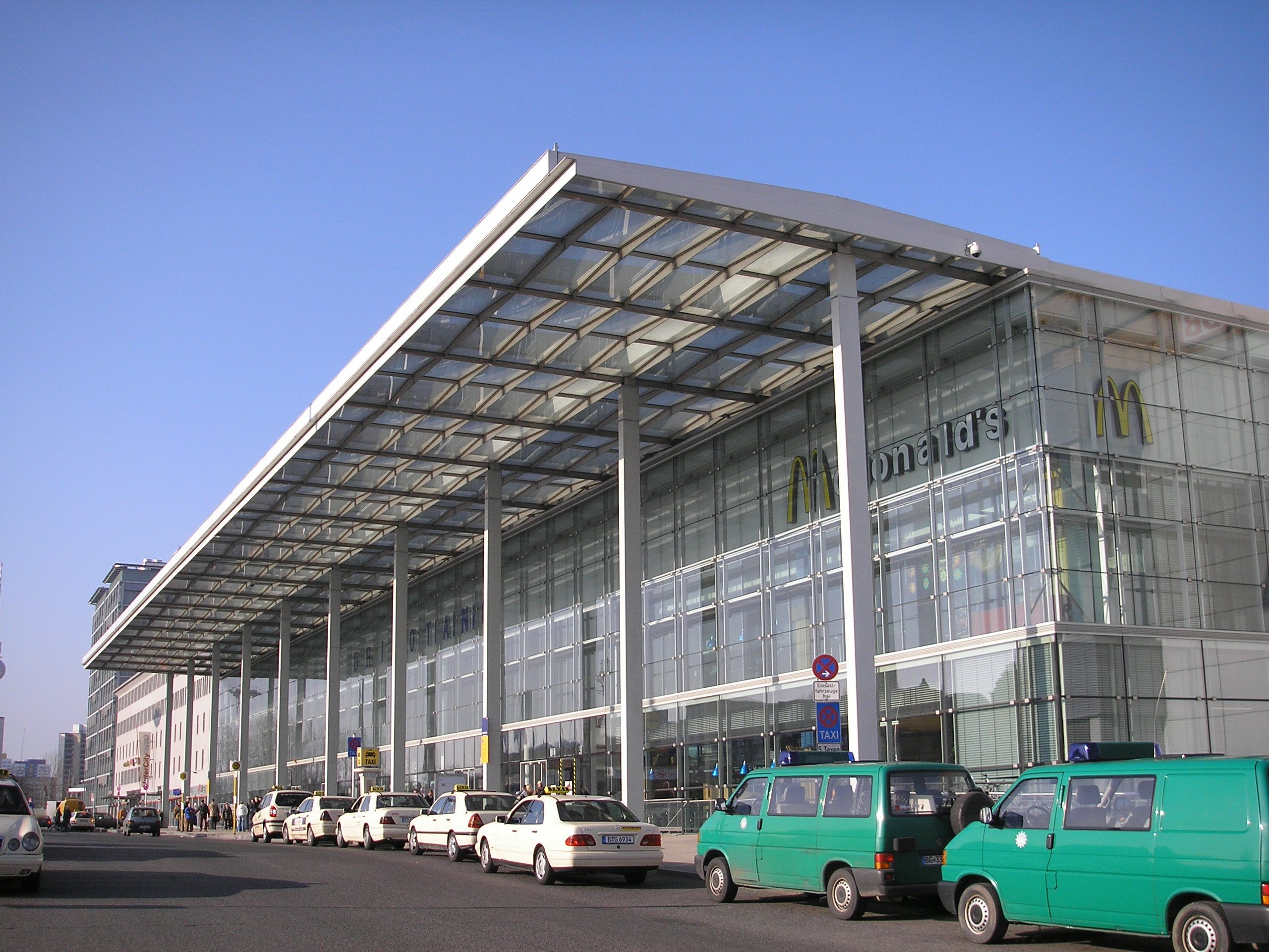 Description: View of Ostbahnhof, Berlin. Source: self-made, I release it into the public domain.